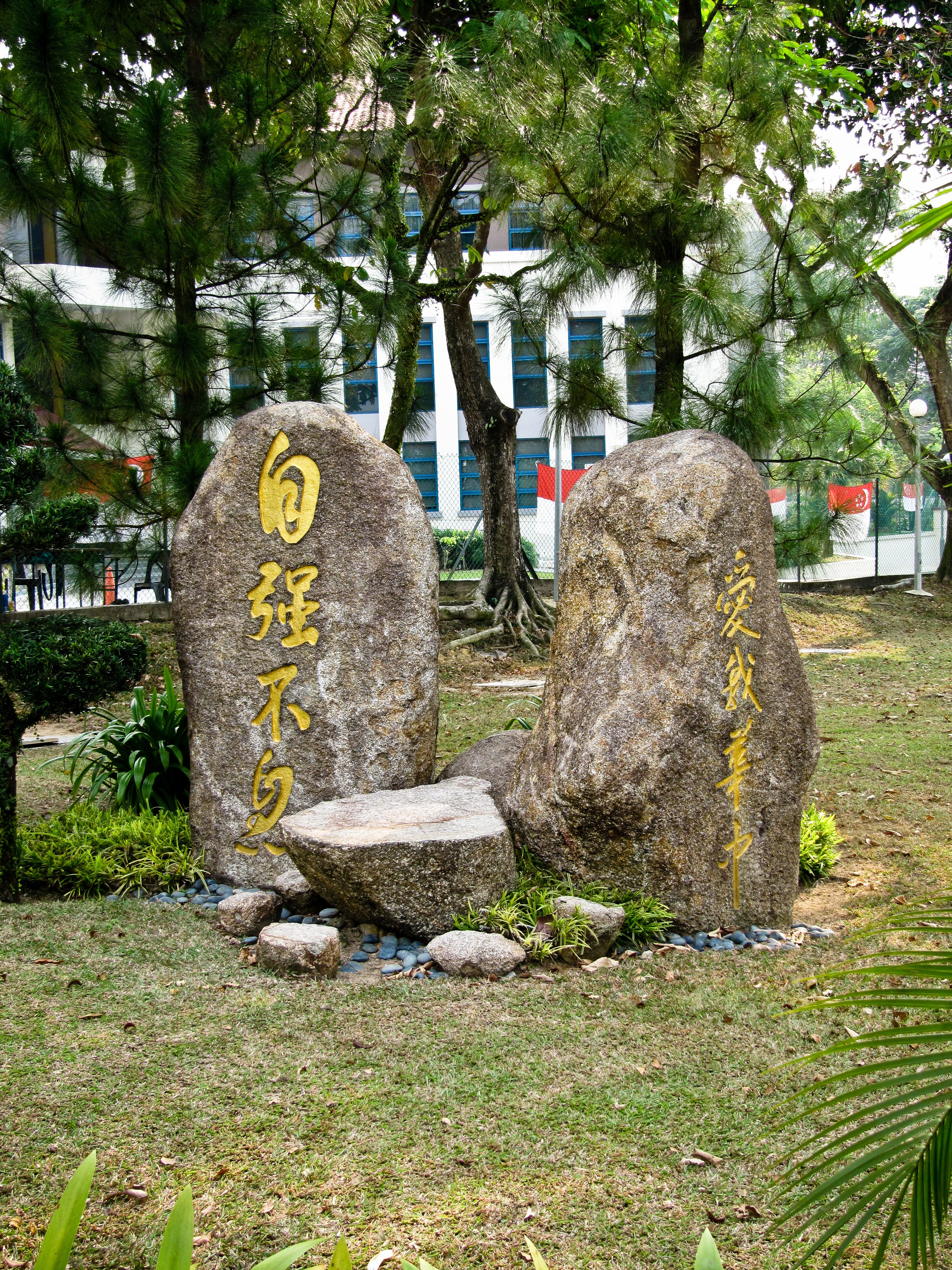 Stone tablet next to the entrance of the Hwa Chong Alumni Association Building.